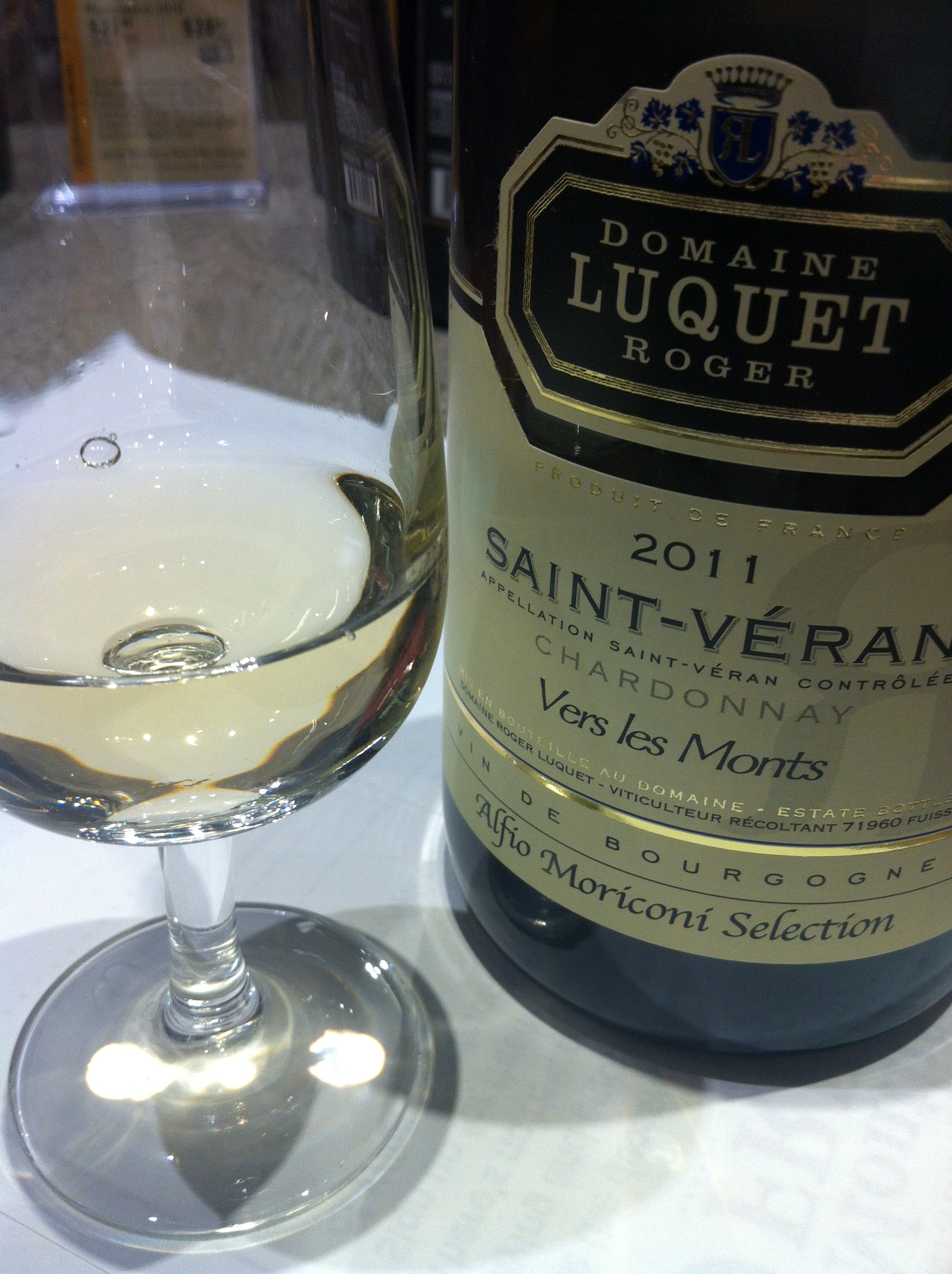 French Chardonnay wine from the Maconnais region of St. Veran in Burgundy